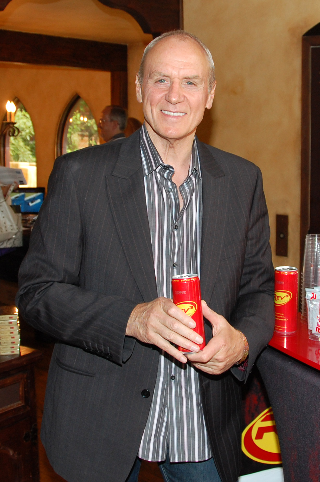 Actor Alan Dale at a Rev3 promotional event.